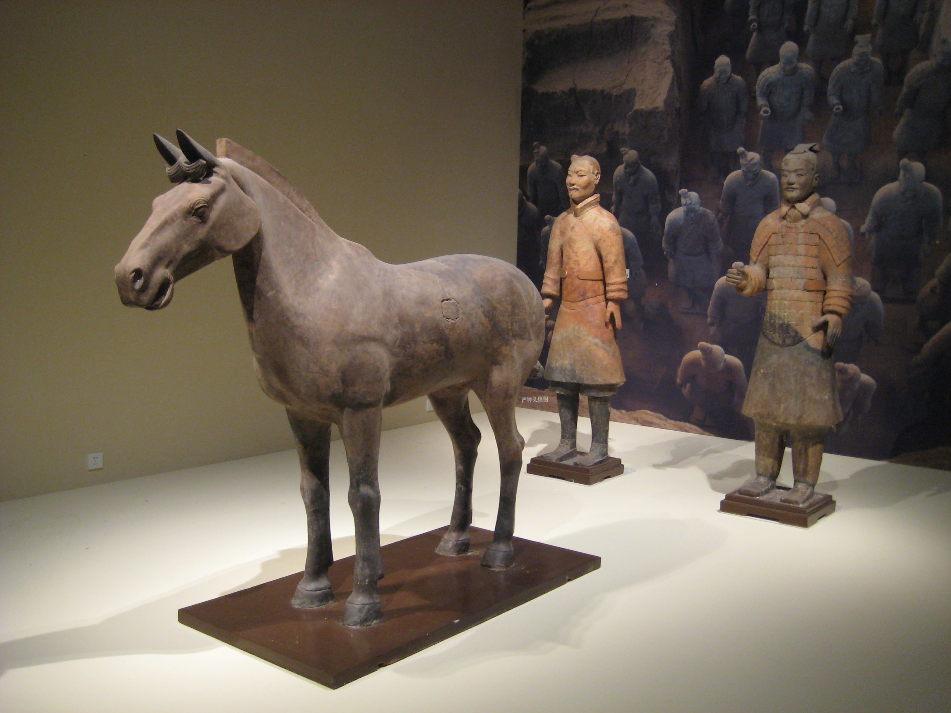 Terracotta horse and two soldiers from the Terracotta Army buried near the Mausoleum of the First Emperor of Qin, at Lintong, Shaanxi Province, 1974.